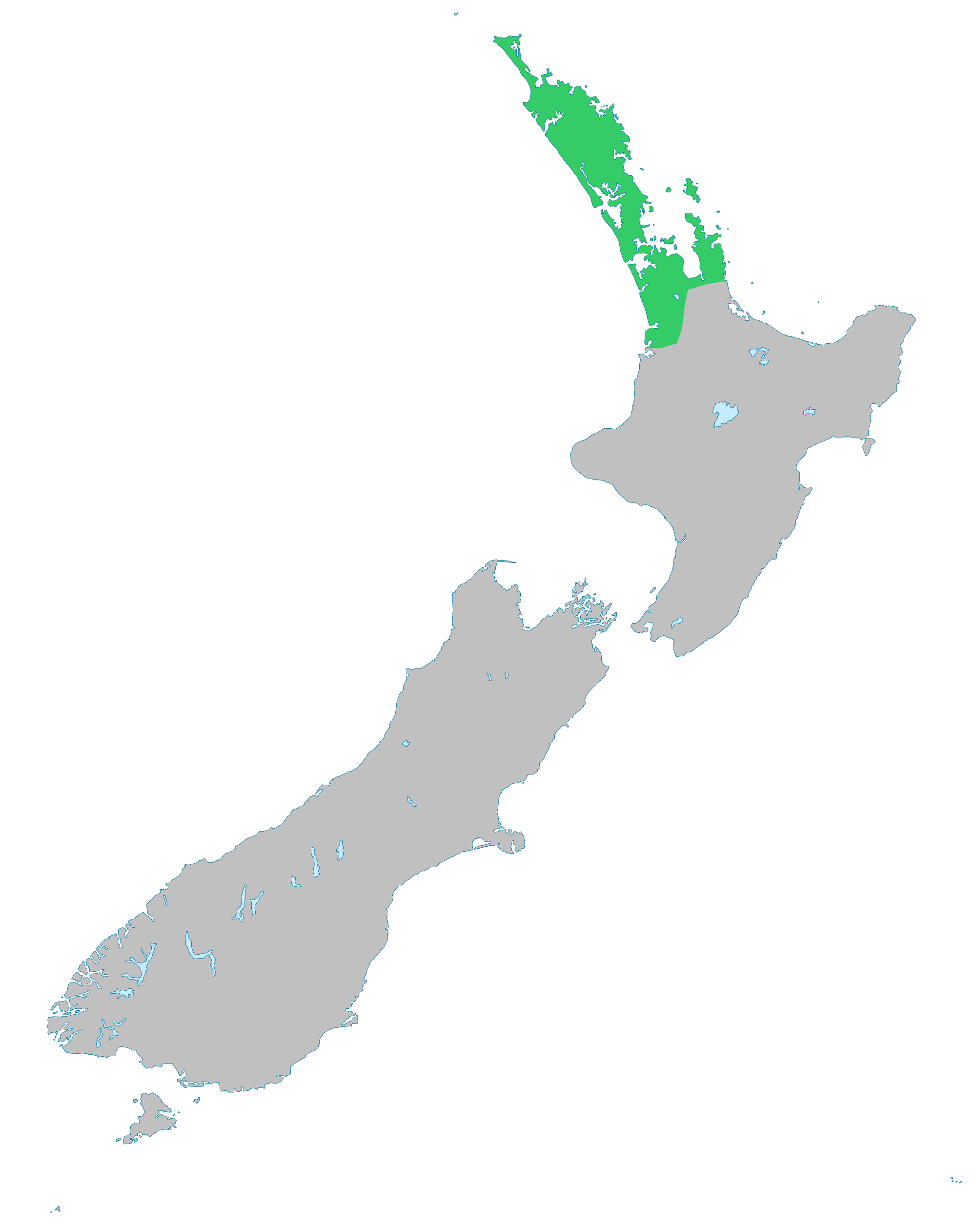 Natural range of Agathis australis, Kauri, a tree endemic to New Zealand. Range information based on Metcalfe, L. (2002). A Photographic Guide to Trees of New Zealand. New Holland: Auckland. p. 29.